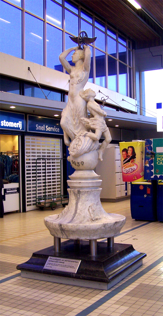 Monument "Verkeer" (Traffic) given by the Employees of the Dutch Railways to there Board of Direction in 1939 in order to celebrate the fact that the Dutch Railways started a hundred years ago. Statue was made by Charles Eyck and placed at the main hall of Utrecht Central Station.